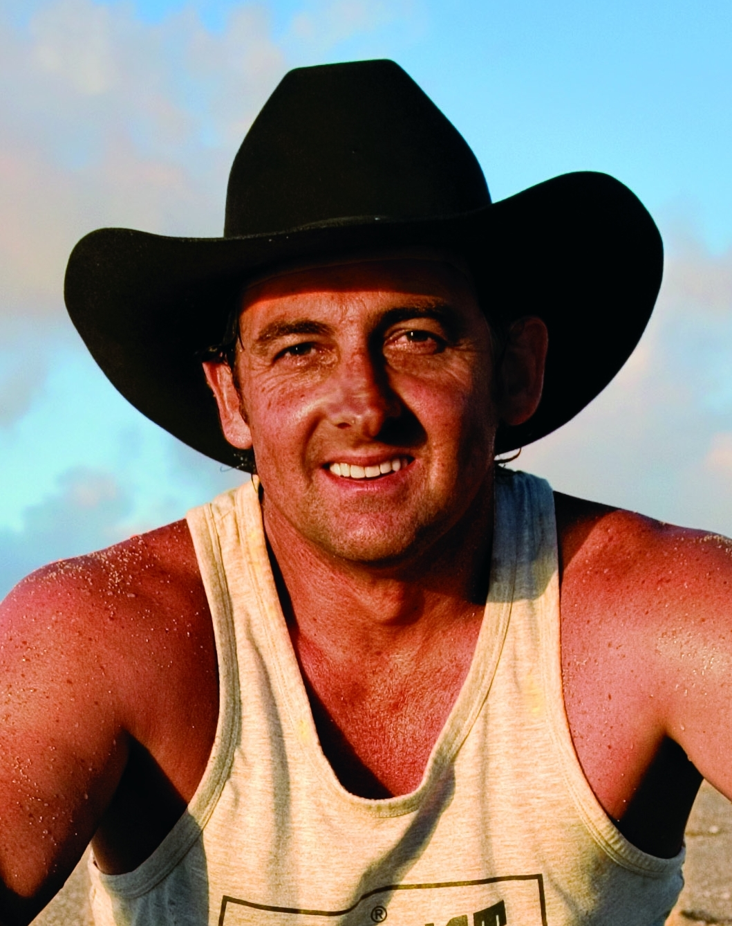 Australian country singer Lee Kernaghan